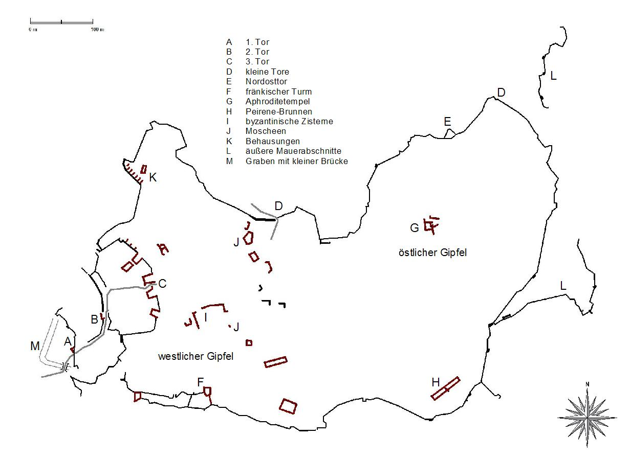 Map of the fortress Acrocorinth (German version)